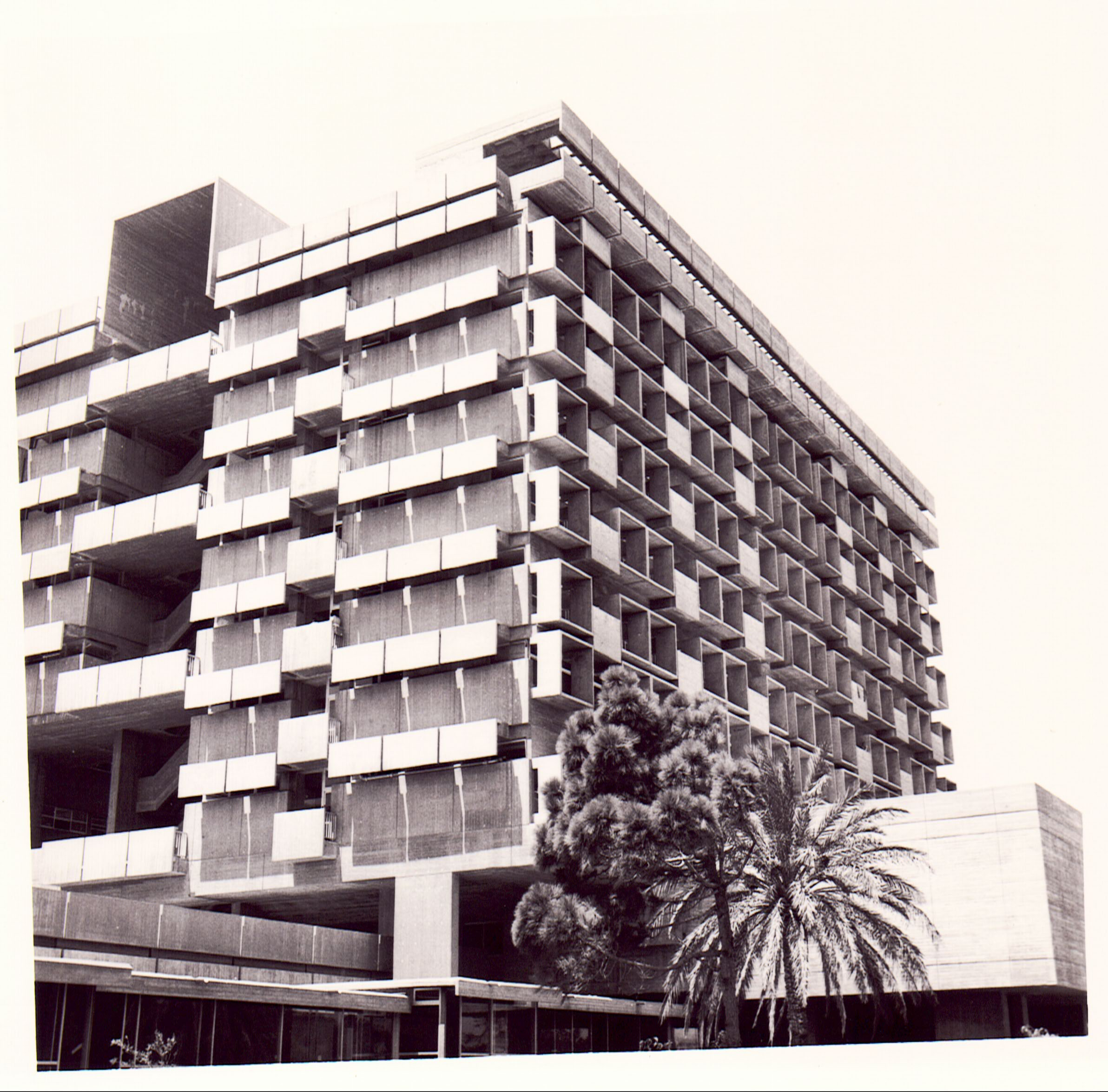 Rambam Hospital Haifa